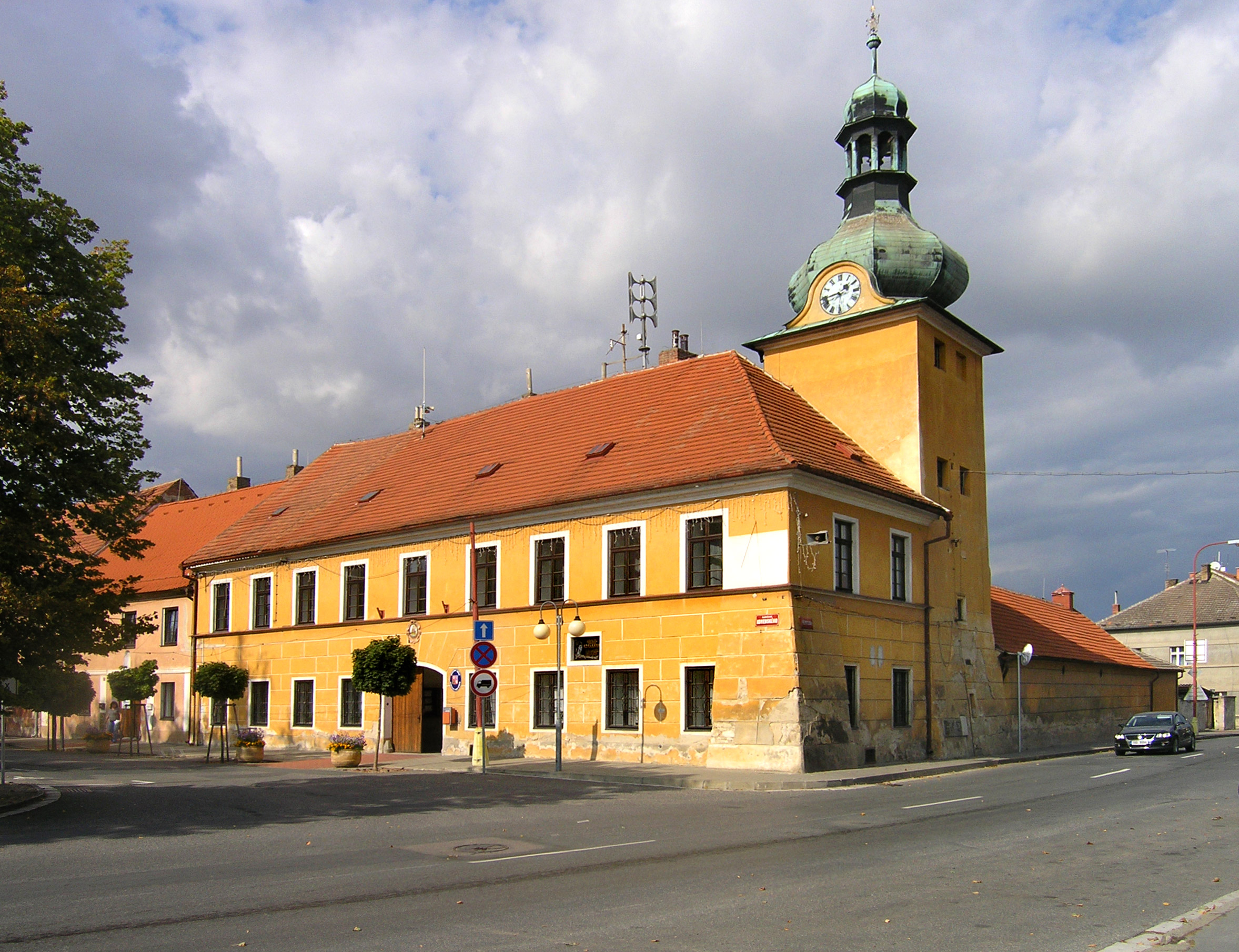 Municipality at Komenského square in Kostelec nad Labem, Czech Republic